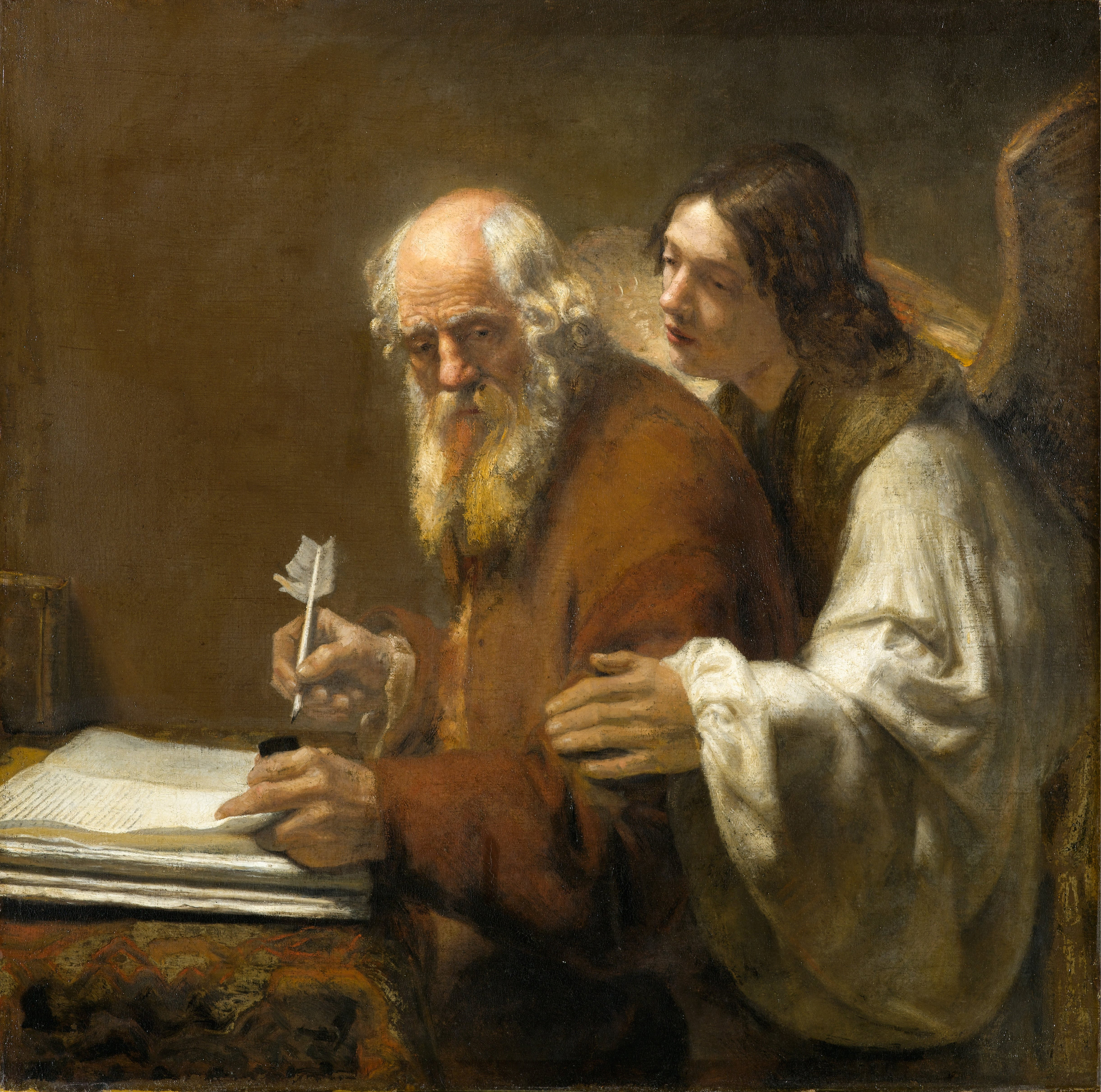 St. Matthew and the Angel. circa 1655 - 1660. Attributed to Karel van der Pluym. Oil on canvas. 42 x 42 1/2 in. (106.7 x 108 cm). North Carolina Museum of Art via Google Cultural Institute.